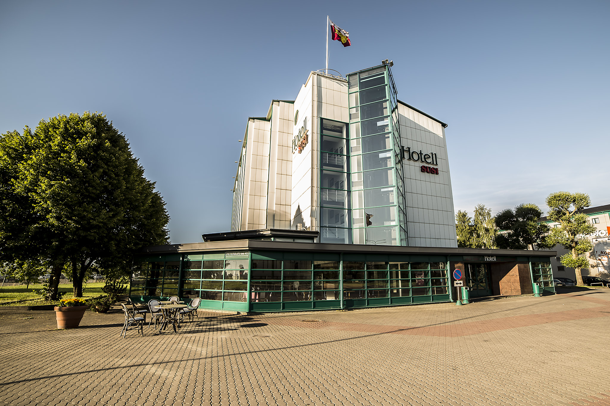 Ülemiste, Tallinn, Estonia